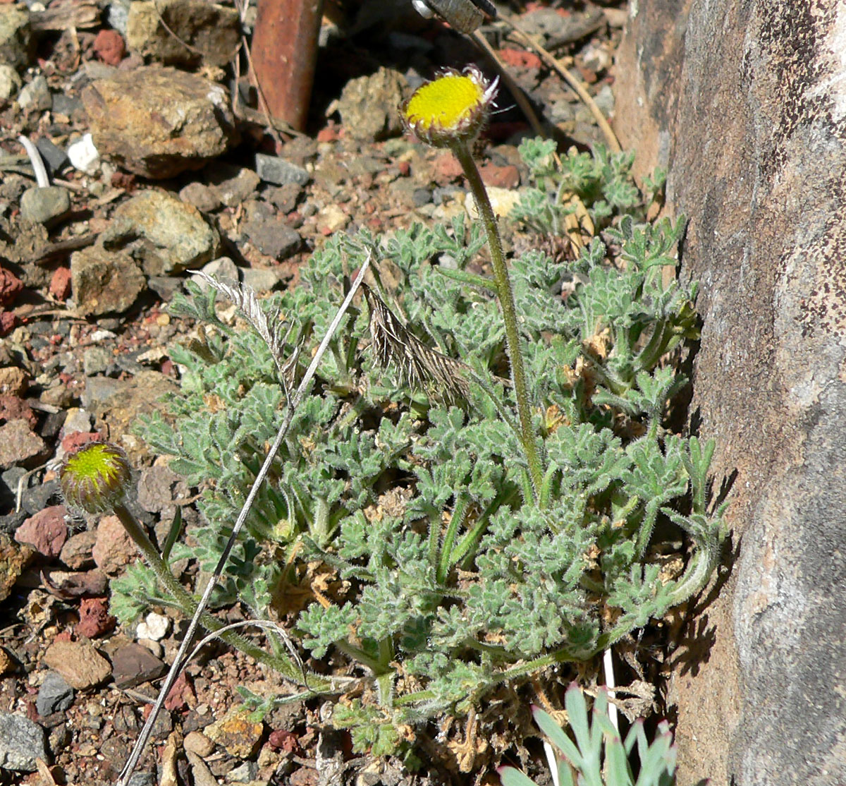 Photo of Erigeron vagus at the Regional Parks Botanic Garden, Berkeley, California